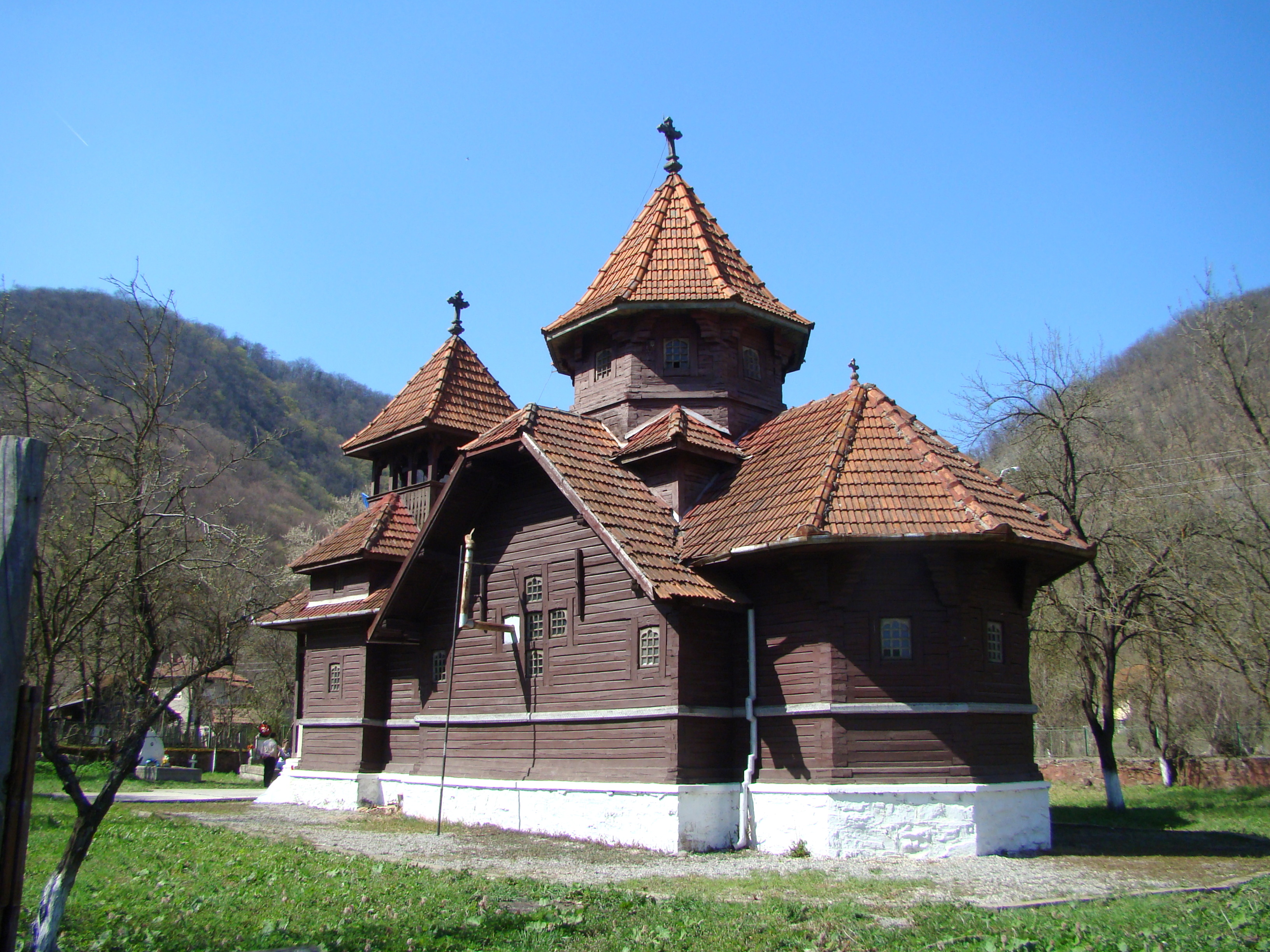 Saint Nicholas wooden church in Groș, Hunedoara county, Romania